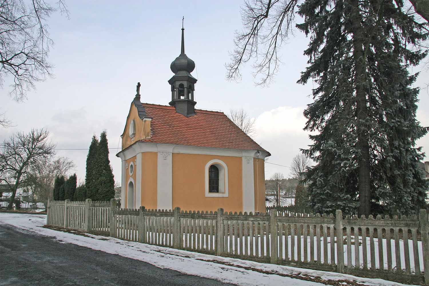 Býšť-Bělečko, Pardubice District, Pardubice Region, the Czech Republic. A chapel built 1822 on the crossroad at the centre of Bělečko village.